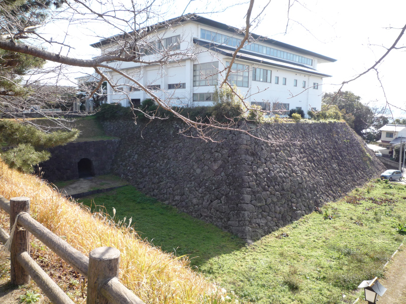 A part of Hiji Castle ruins